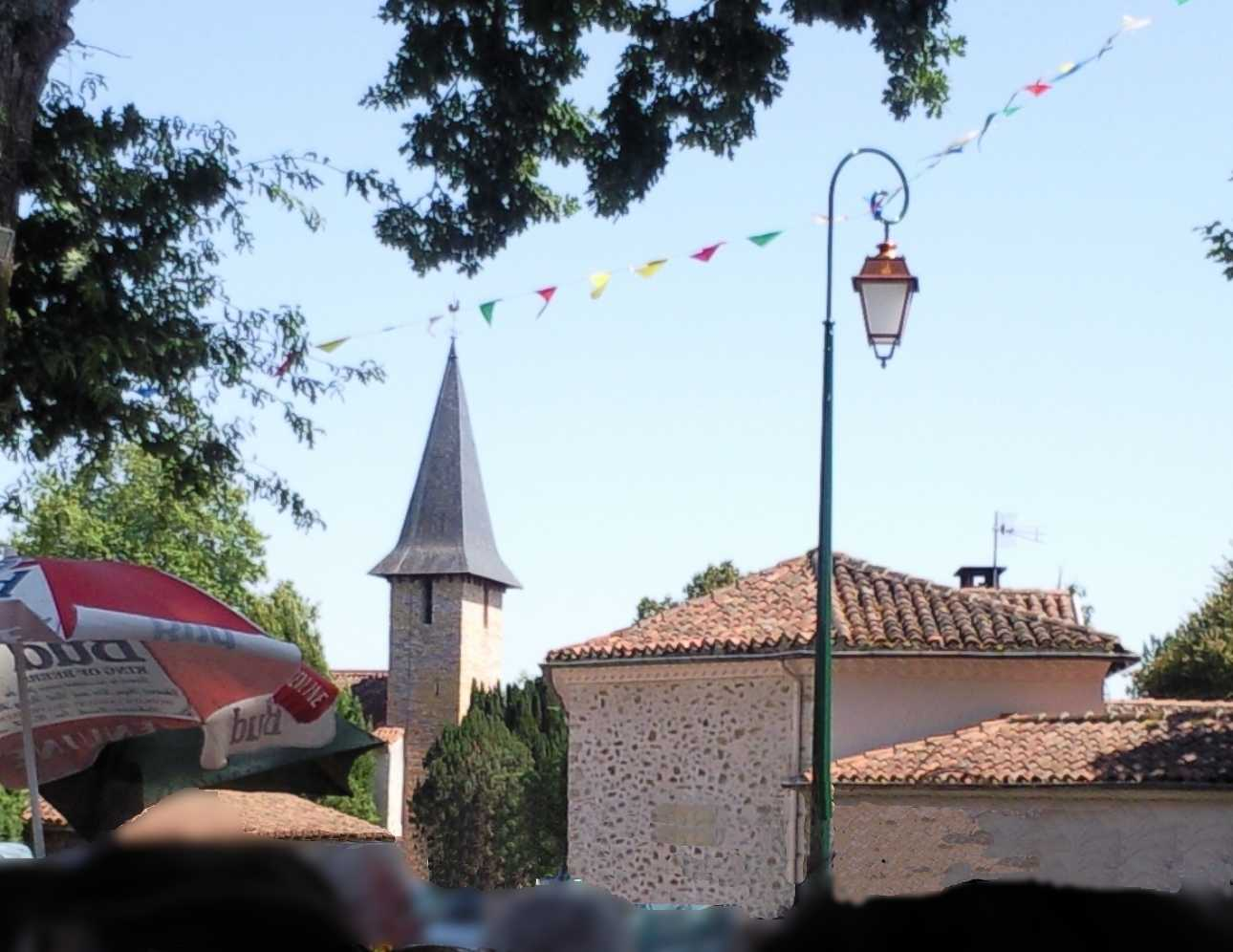 View of Bélis